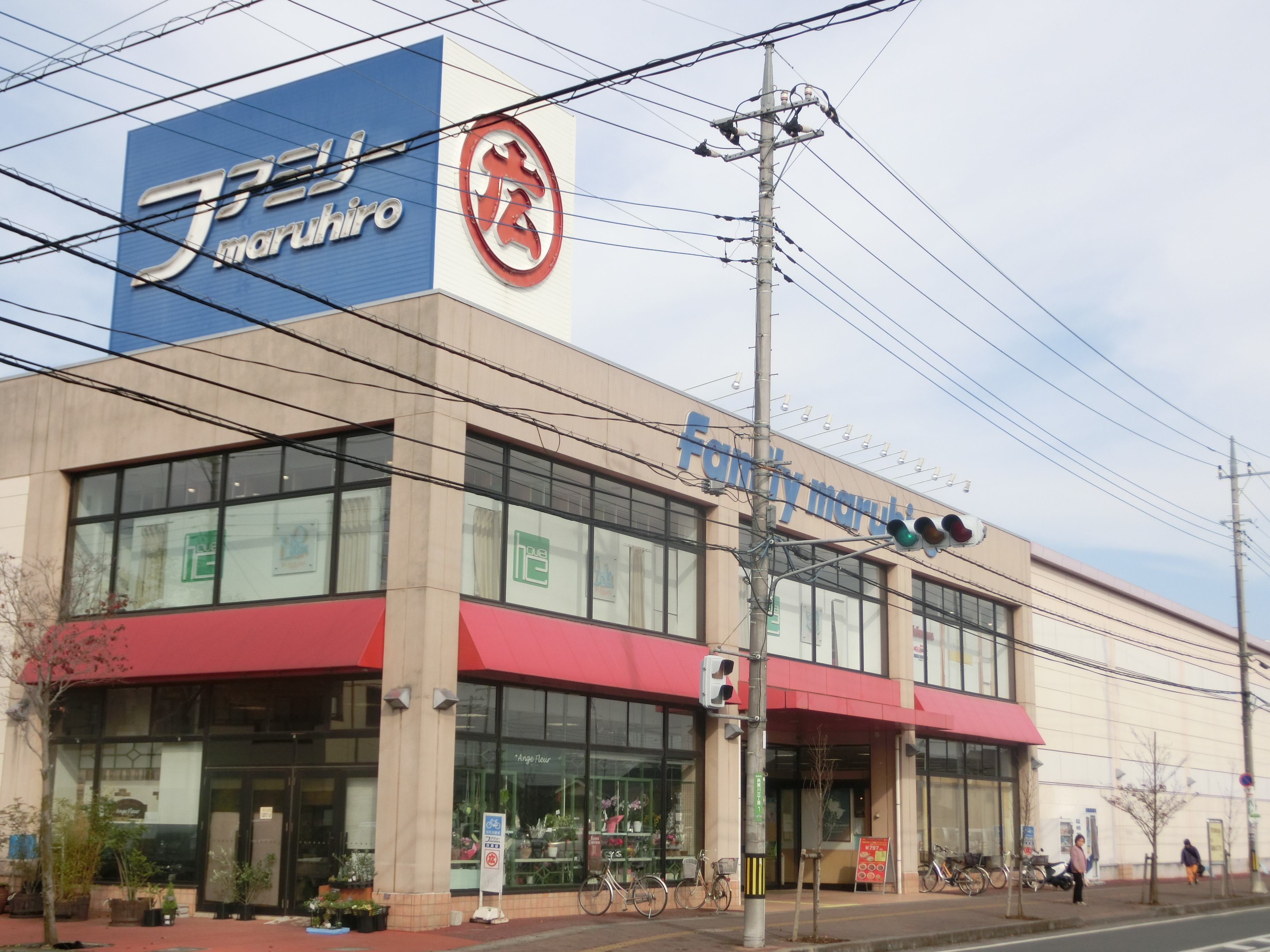 Family Maruhiro Hidaka Shop